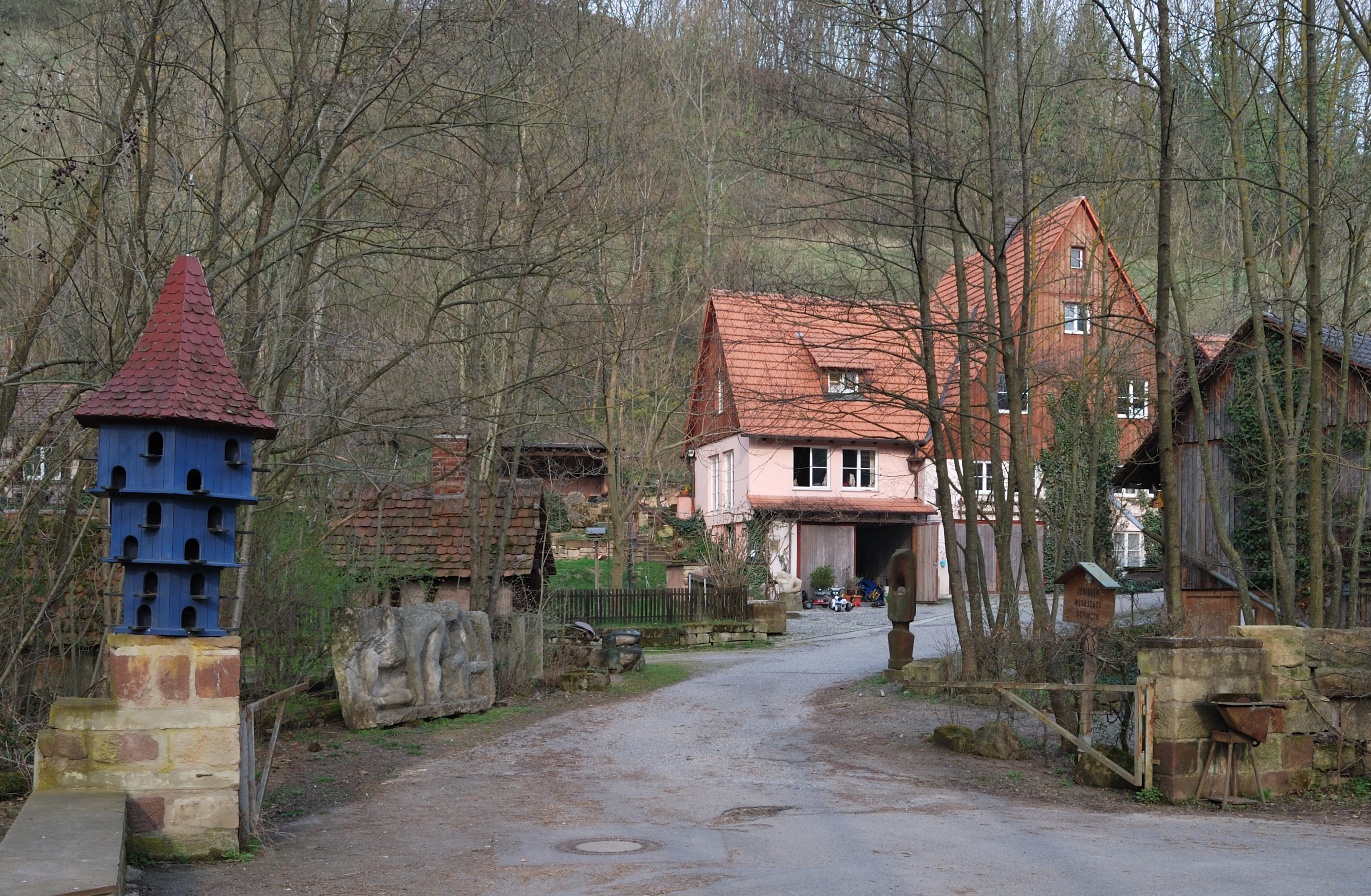 Felsensägmühle, a former sawmill on the river Glems in Leonberg in the federal state Baden-Württemberg in Southern Germany.